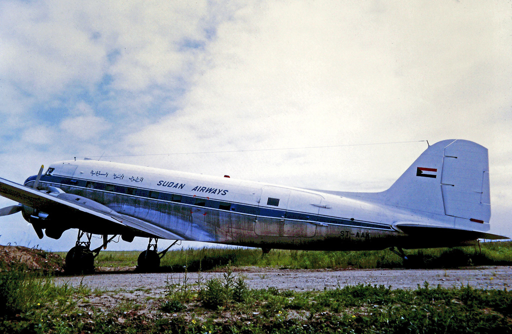 Douglas C-47B (DC-3) ST-AAK of Sudan Airways at East Midlands Airport in 1971